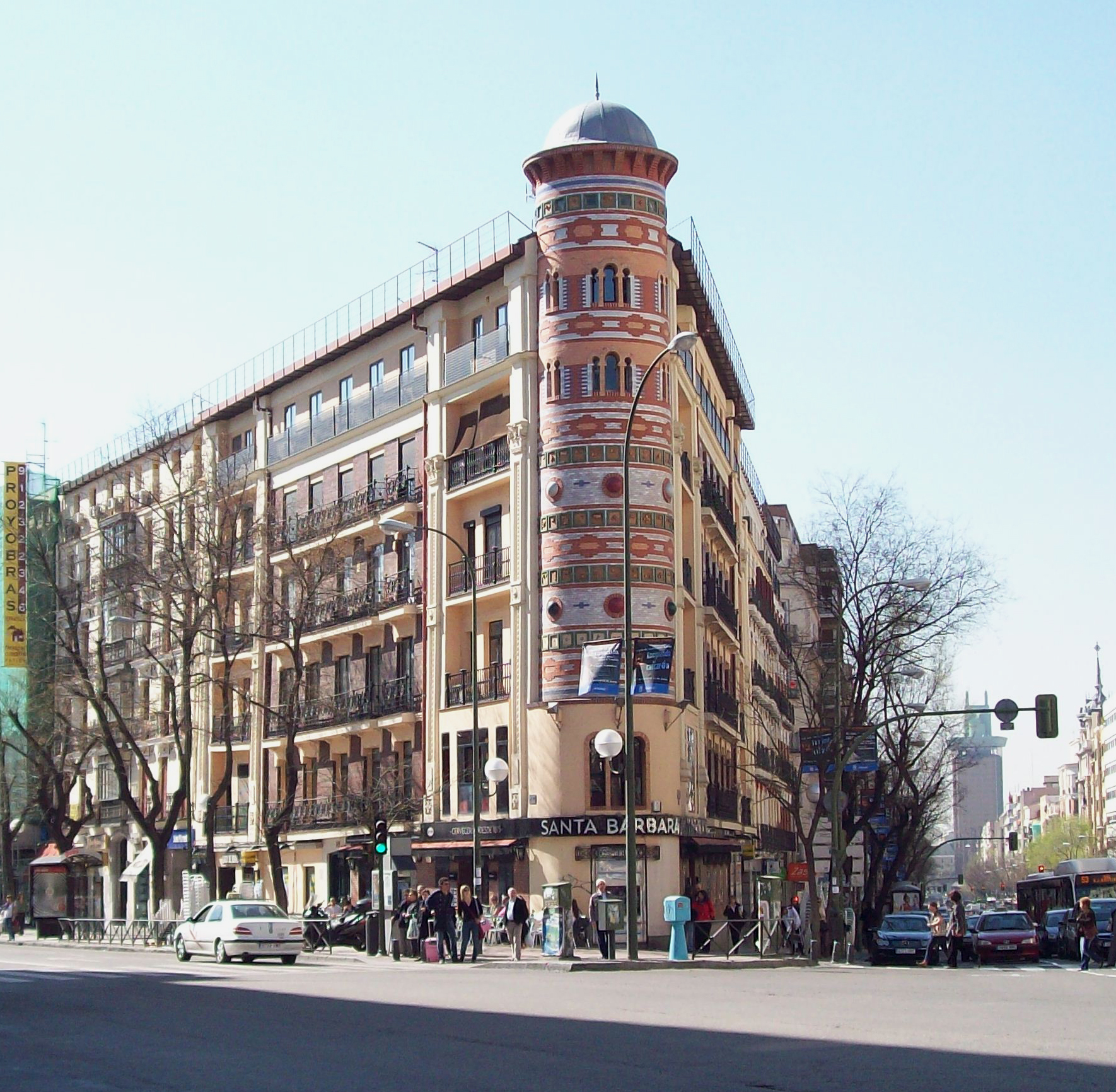 View of Casa de las Bolas, at 145 Calle de Alcalá (street, Salamanca district) in Madrid (Spain). Building was projected by Julián Marín and built between 1885 and 1895. It was extended and altered by Luis Sainz de los Terreros Gómez from 1905 to 1906.